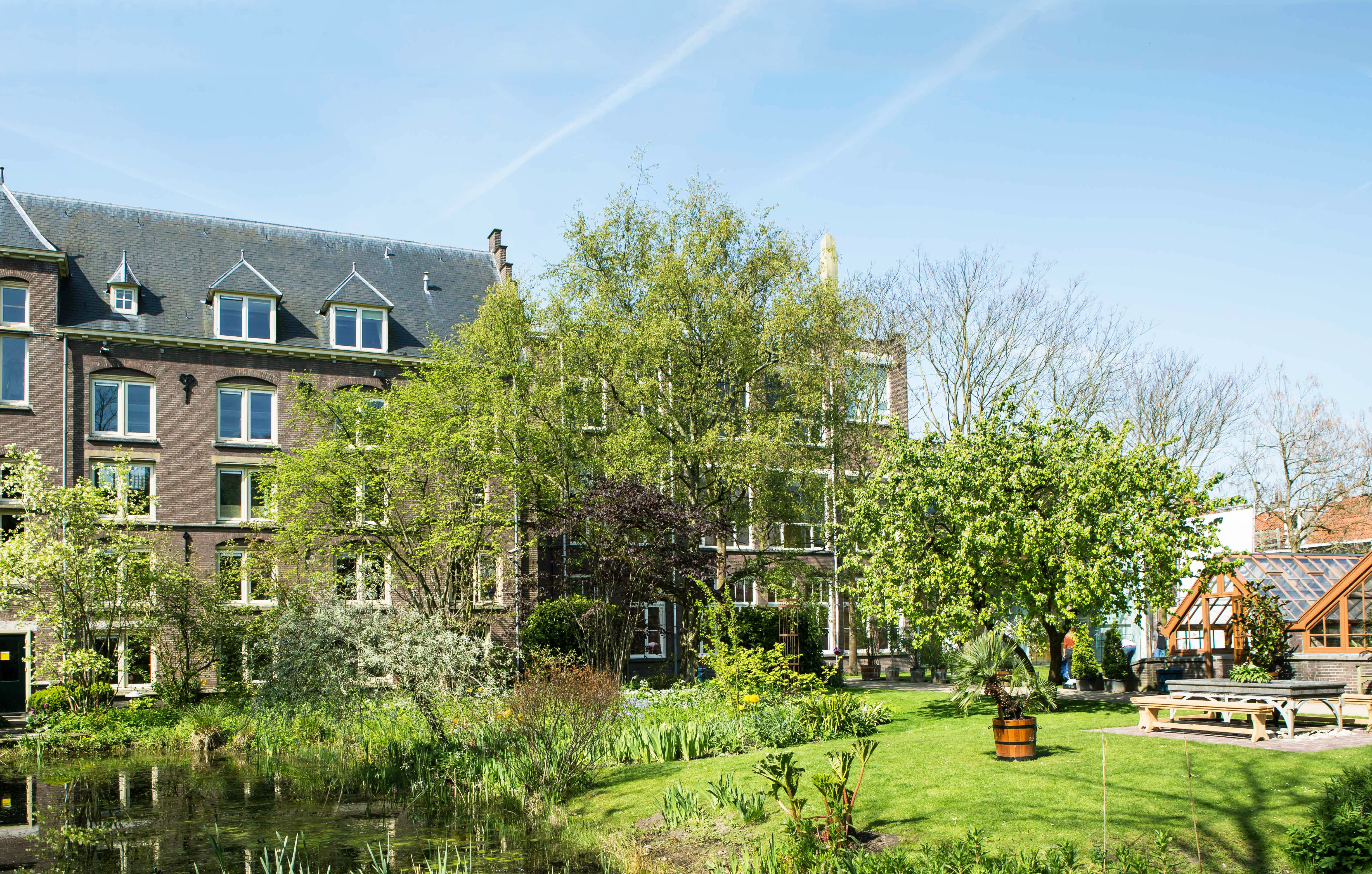 Deel van de Hortus met zijn kassen